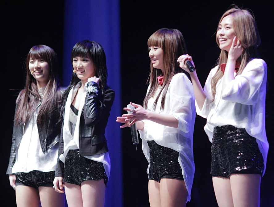 Miss A at Seoul Art School in 2012